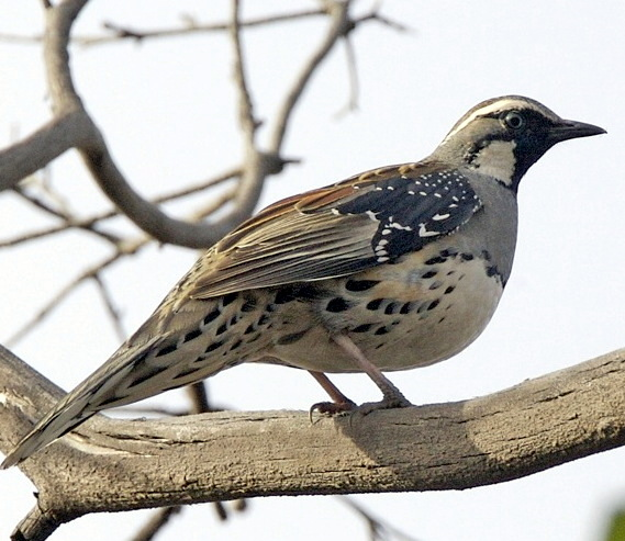 Spotted Quail-thrush Cinclosoma punctatum Brisbane Ranges, Victoria, Australia 10th. November 2008